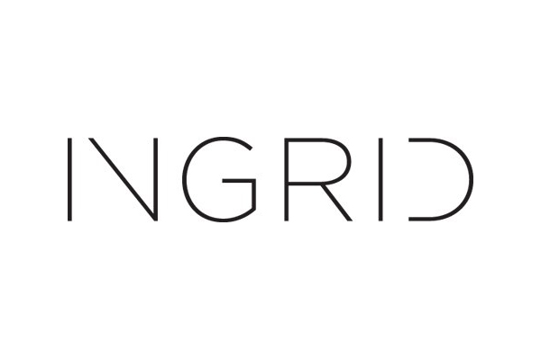 Logo for the Swedish record label, INGRID, designed by Jonas Torvestig.